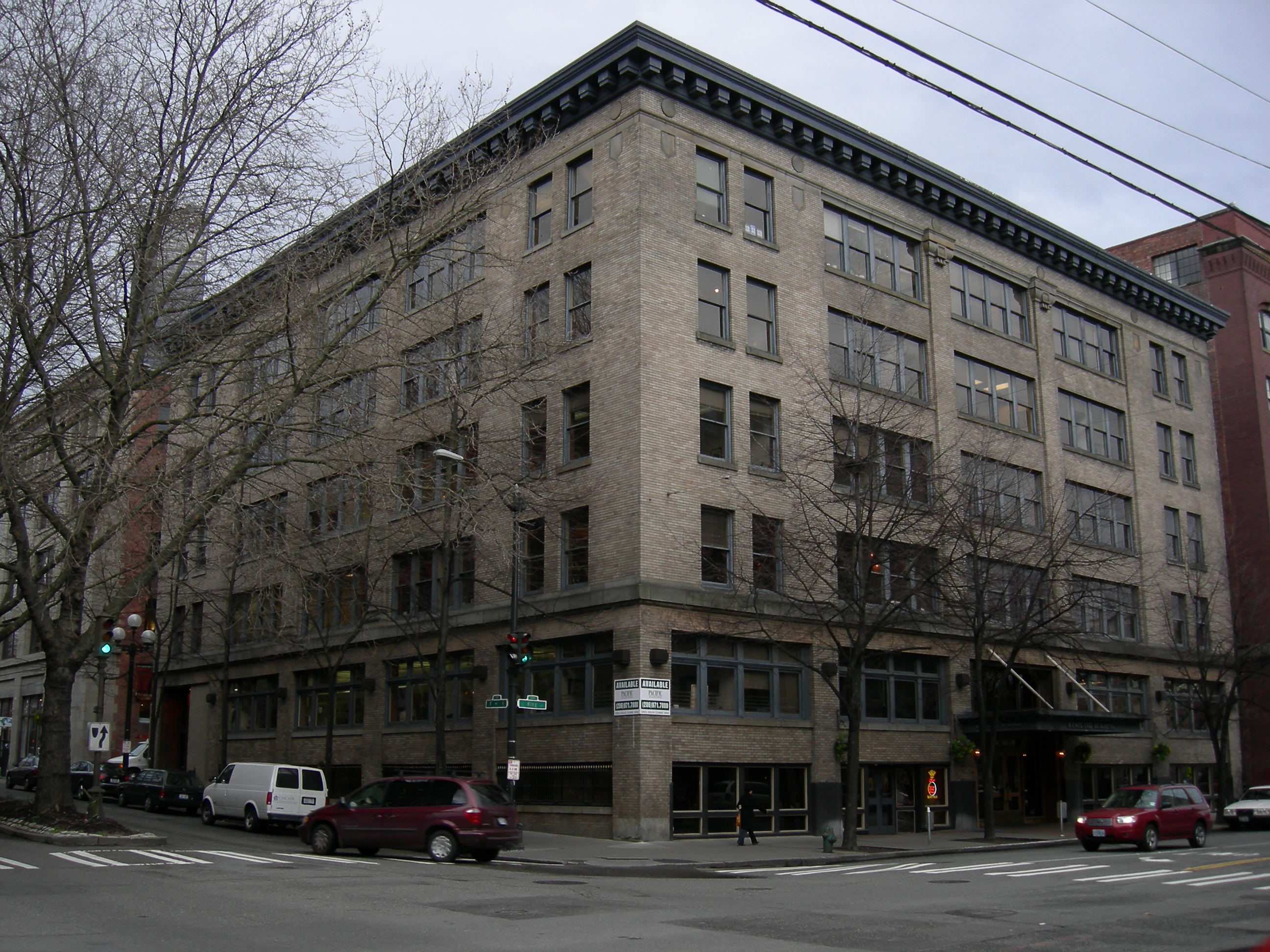 Westland Building, 100 S. King Street, Pioneer Square neighborhood, Seattle, Washington, USA. Also known as Hambaca Building / Tempco Quilters Building. Built 1907, originally as a warehouse. Restored 1978 by architects Ralph Anderson et. al. Now an office building; ground floor has been a restaurant at times, but is currently just an occasionally used banqueting facility. For more information, see Summary for 100 S King ST S / Parcel ID 5247800300, Seattle Department of Neighborhoods.